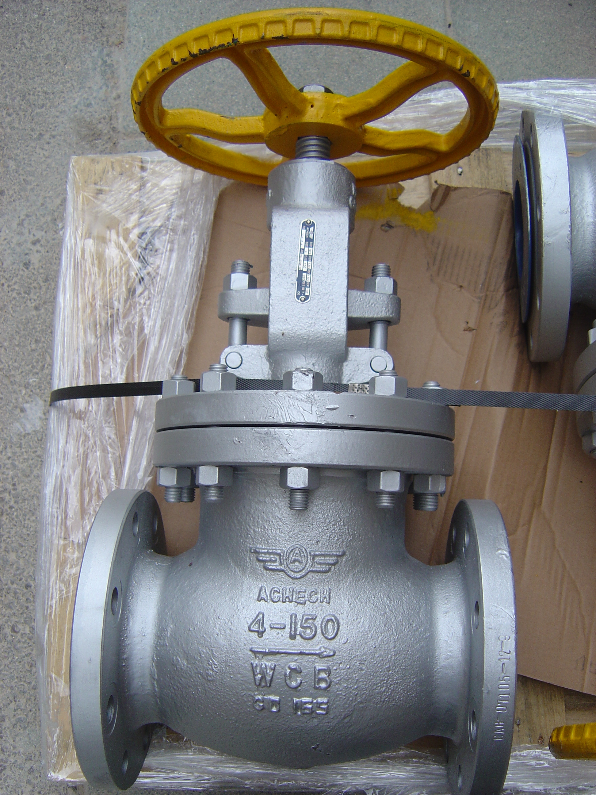 Globe valve. 4" 150# RF A216 WCB trim 8. Valves and are generally made of plastic or steel, the latter being the most widely used in chemical and petrochemical applications. Steel grades range from the most common type, namely carbon steel, with standard stainless steel being the second most common. Stainless steel alloys, which include nickel or copper are used in applications that require higher corrosion or heat resistance. In such cases, the most commonly used valve configurations -- ball valves, gate valves, check valves, globe valves and butterfly valves -- are often forged or cast as duplex valves, super duplex valves, alloy 20 valves, monel valves, inconel valves, incoloy valves and 254 SMO valves (6Mo valves). Titanium valves are also used in some highly corrosive applications. Titanium is not a stainless steel alloy.